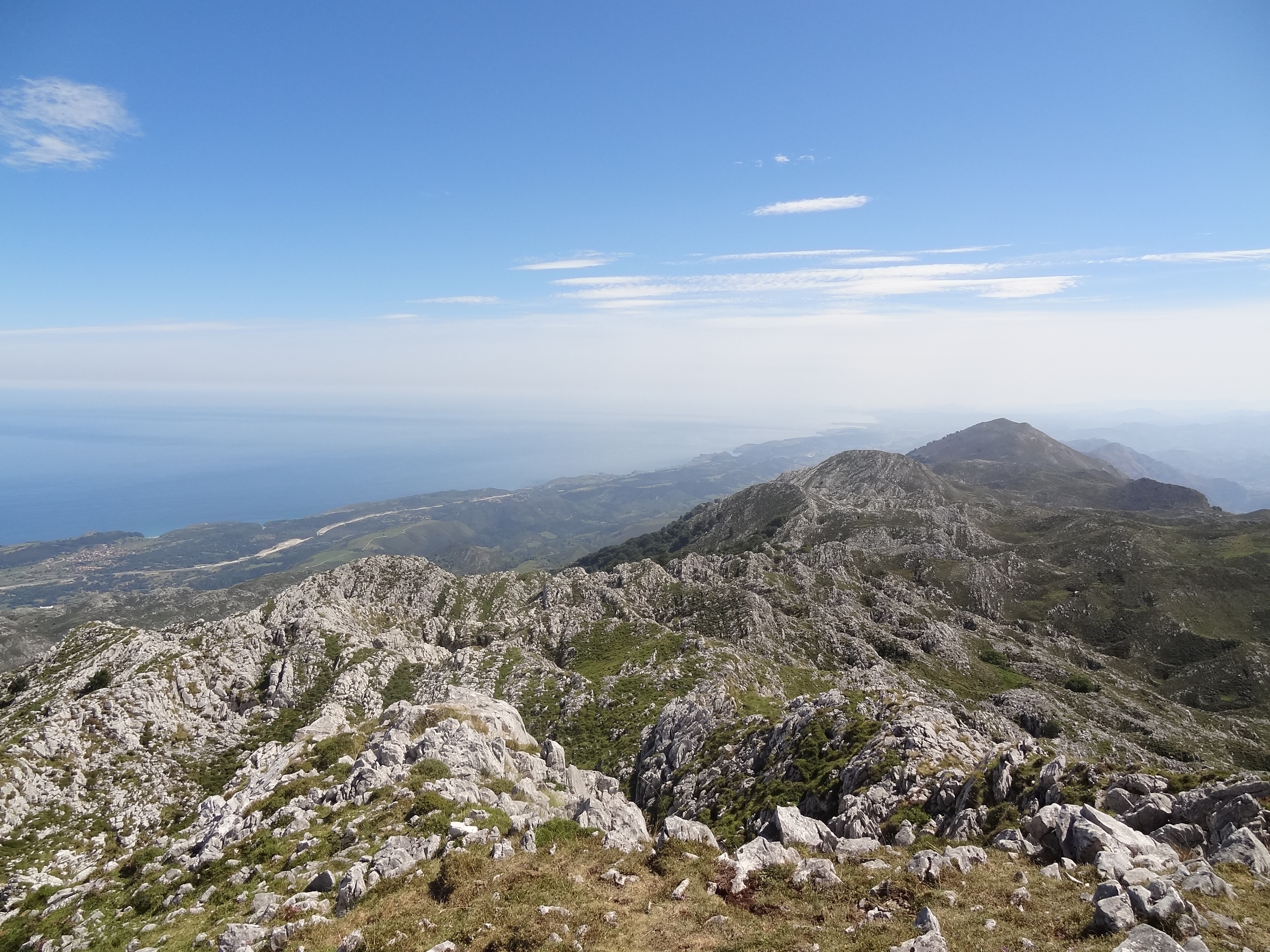 Vista desde la cima del pico Turbina, el pico más alto de la sierra del Cuera (Llanes, Asturias), mirando al mar. El pueblo que se ve al fondo, a la izquierda es Andrin (LLanes). La foto fue tomada en un día no muy claro, el 21 de agosto de 2012.